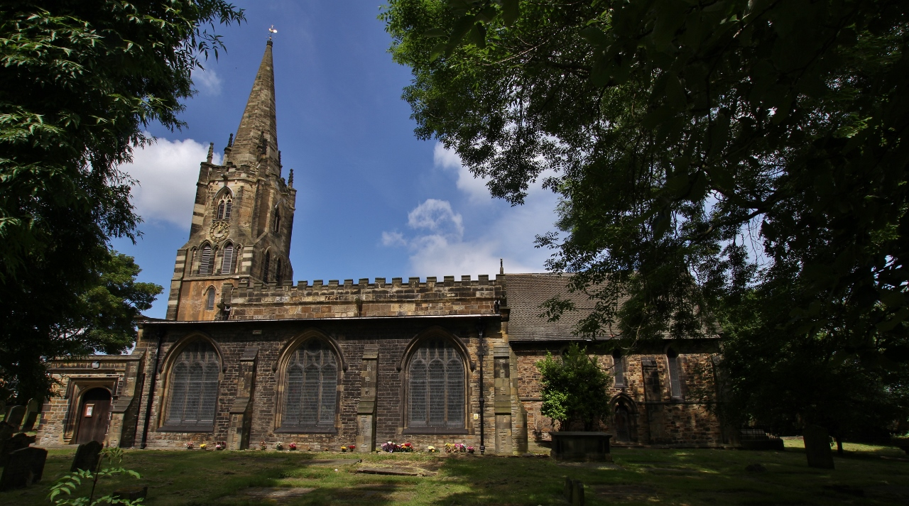 Parish church of St Mary the Virgin, Handsworth Road, Handsworth, South Yorkshire, seen from the south